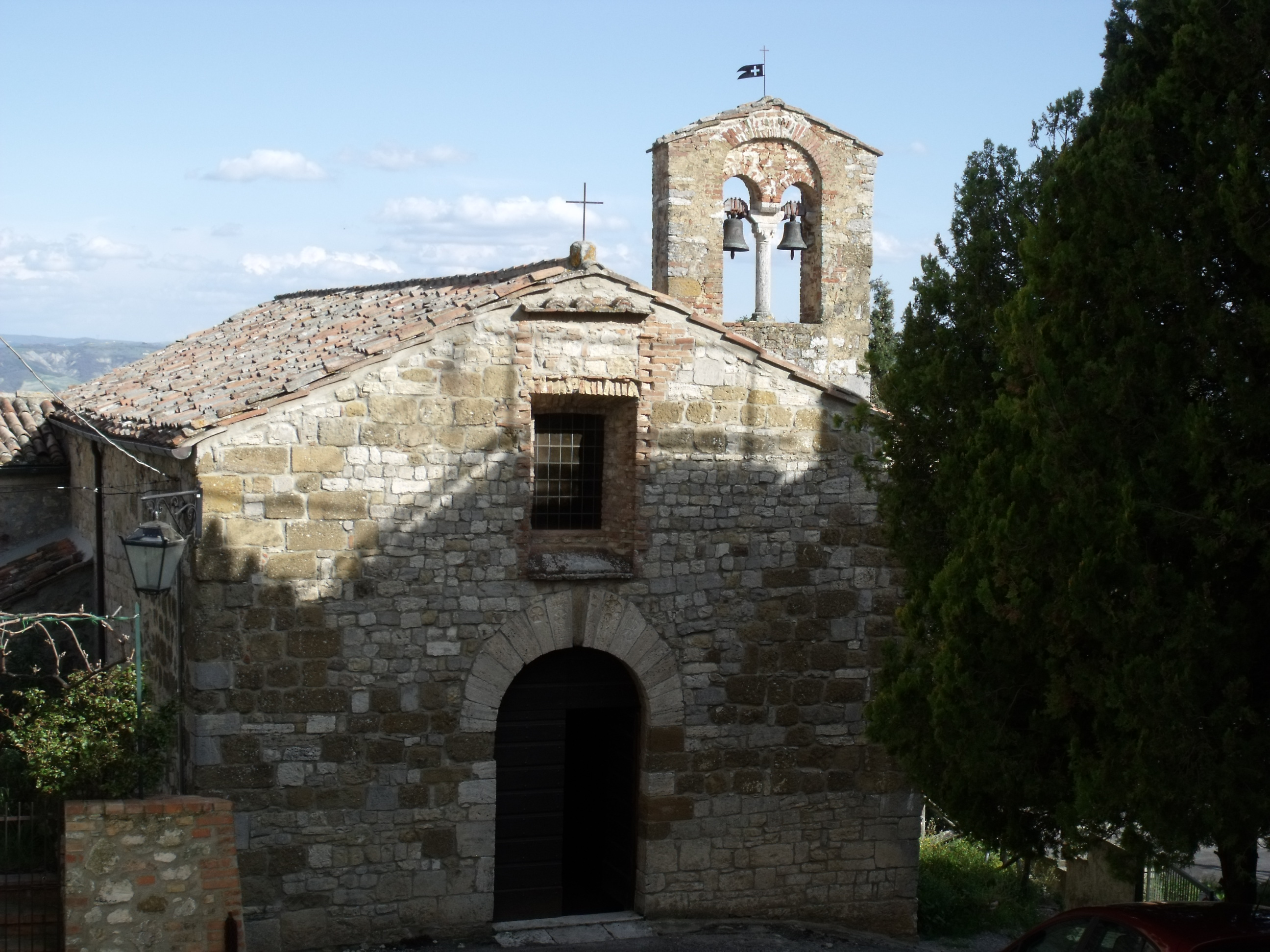 Church of Santa Maria Maddalena in Castiglione d’Orcia, Val d’Orcia, Province of Siena, Tuscany, Italy